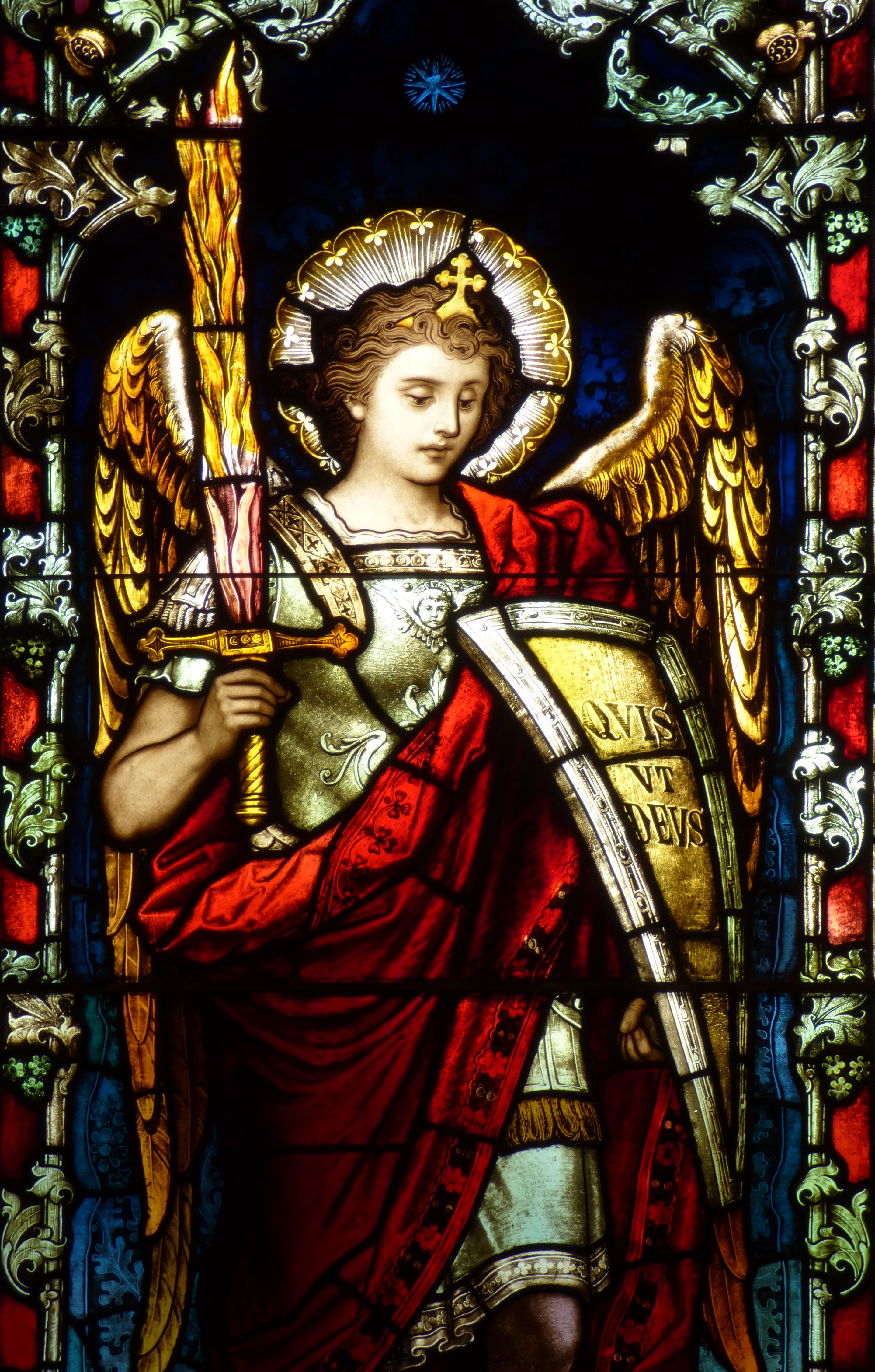 Detail of Archangel Michael on stained glass window in St. Stephen the Martyr Daily Mass Chapel in Omaha.